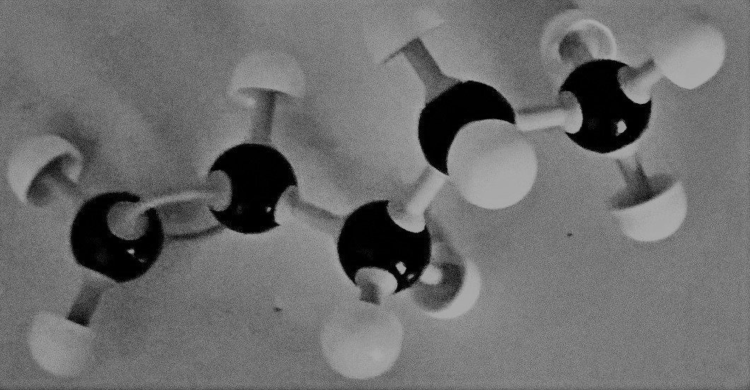 1-Pentene (Ball-Stick Model)